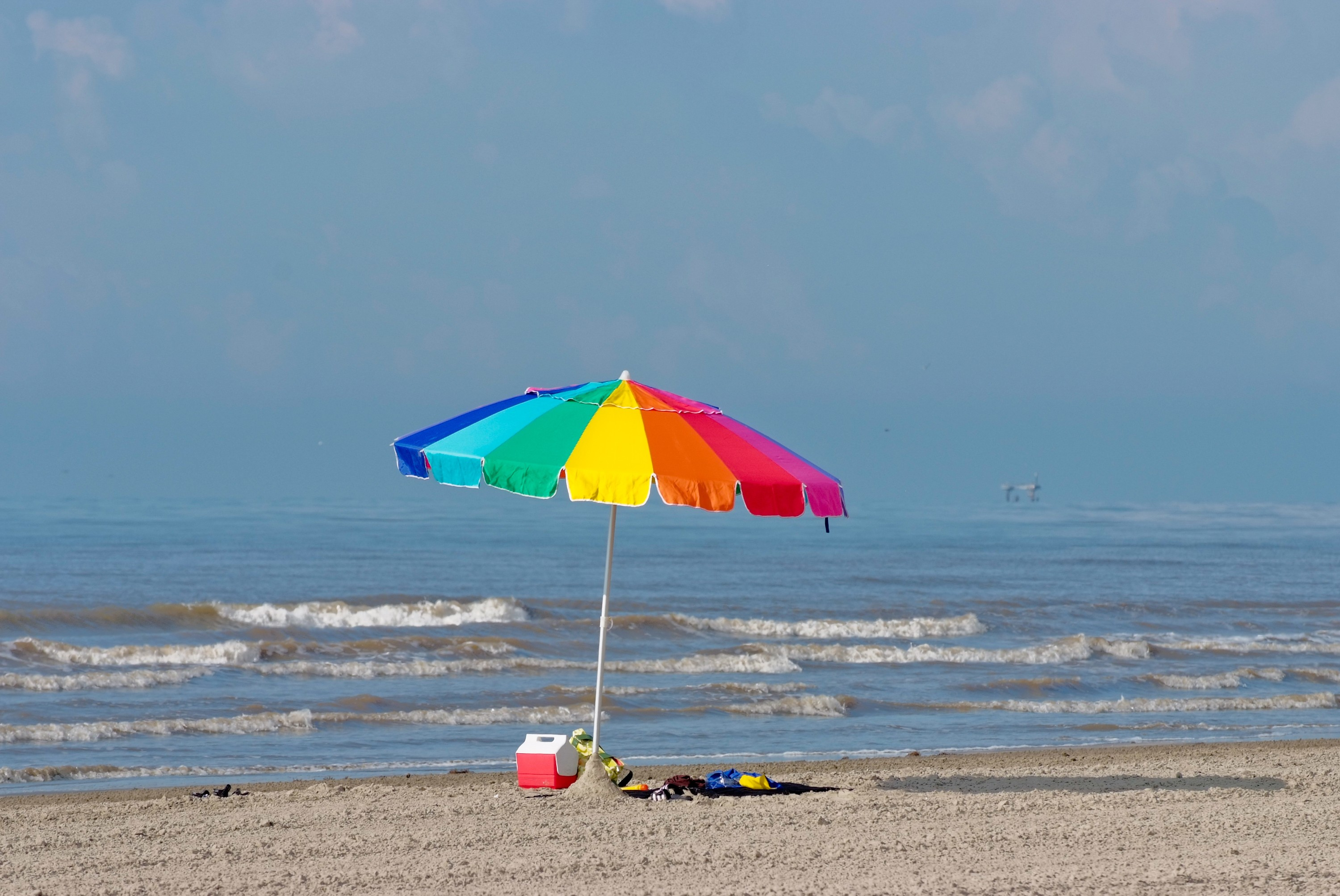 Beach umbrella, Texas, Gulf Coast Ecosystem Restoration images